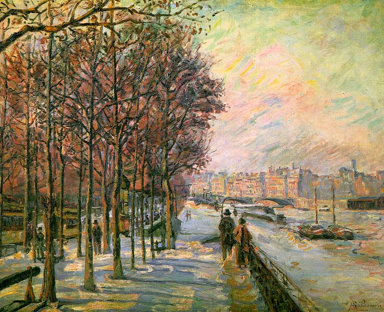 La Place Valhubert. en:1875. Armand Guillaumin. Category:Images of paintings